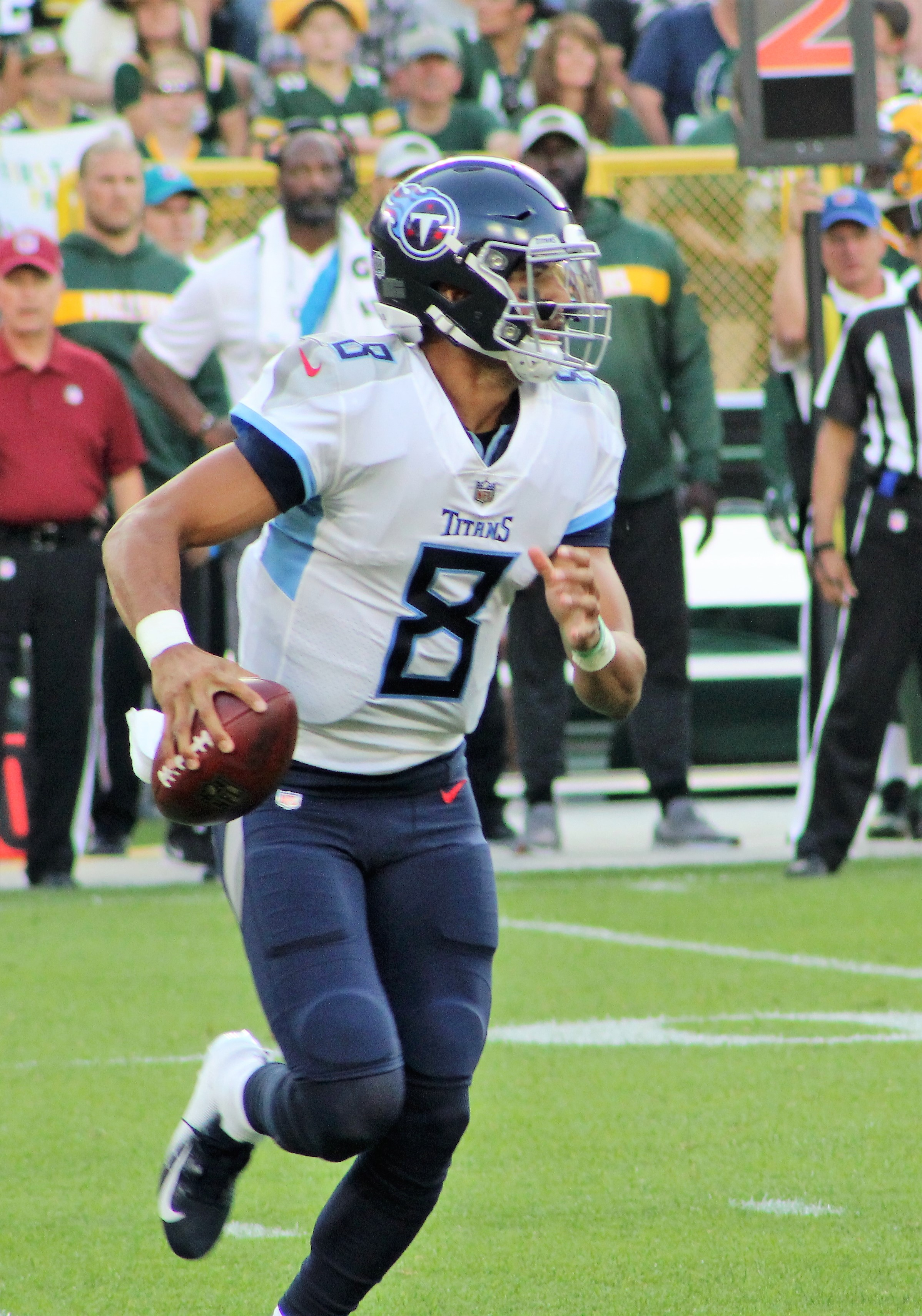 Marcus Mariota, Tennessee Titans at Green Bay Packers (Preseason), August 9, 2018